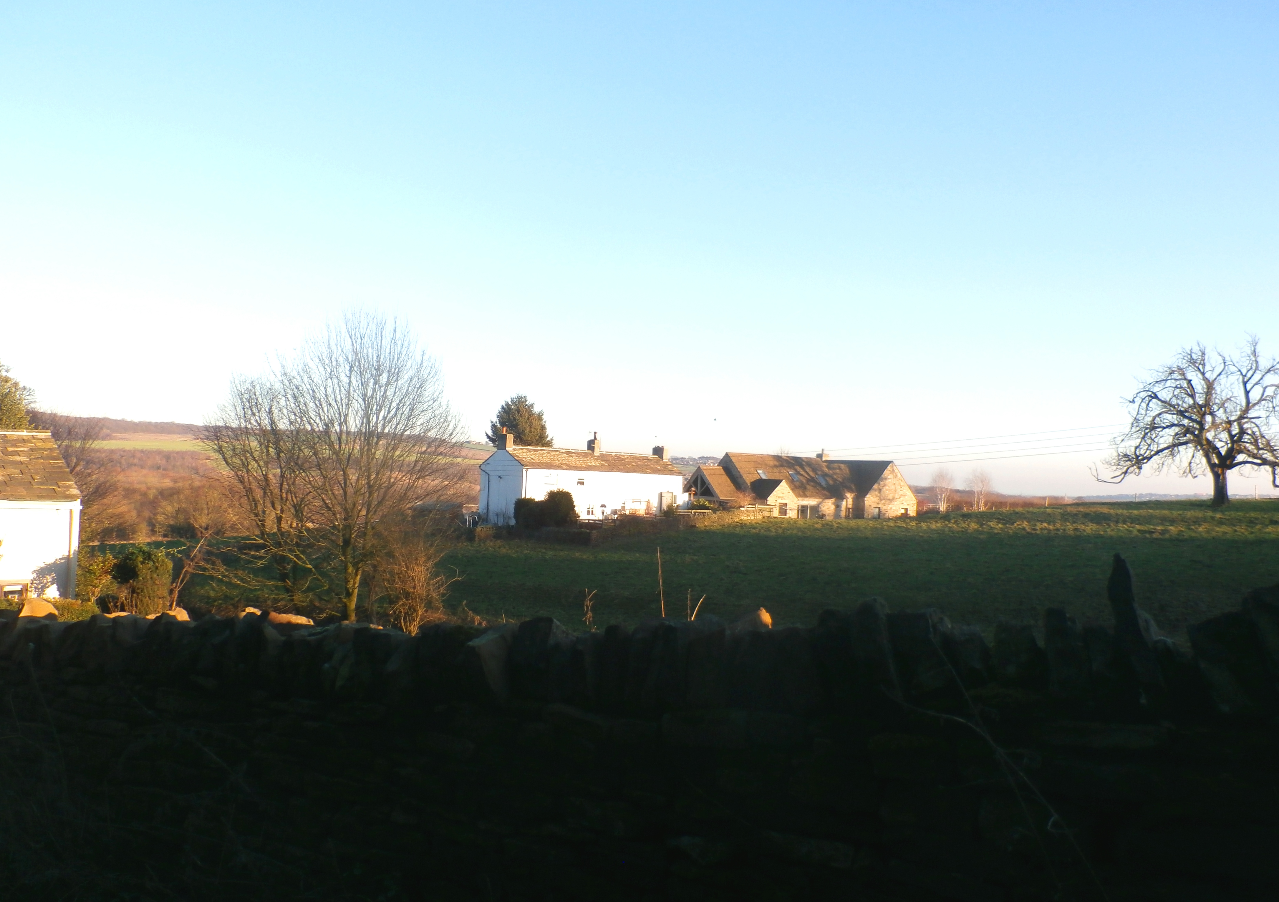 Dwellings at Haigh